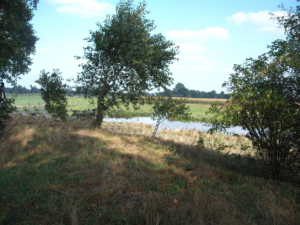 Picture of the Loozensche Linie taken from the redoubt